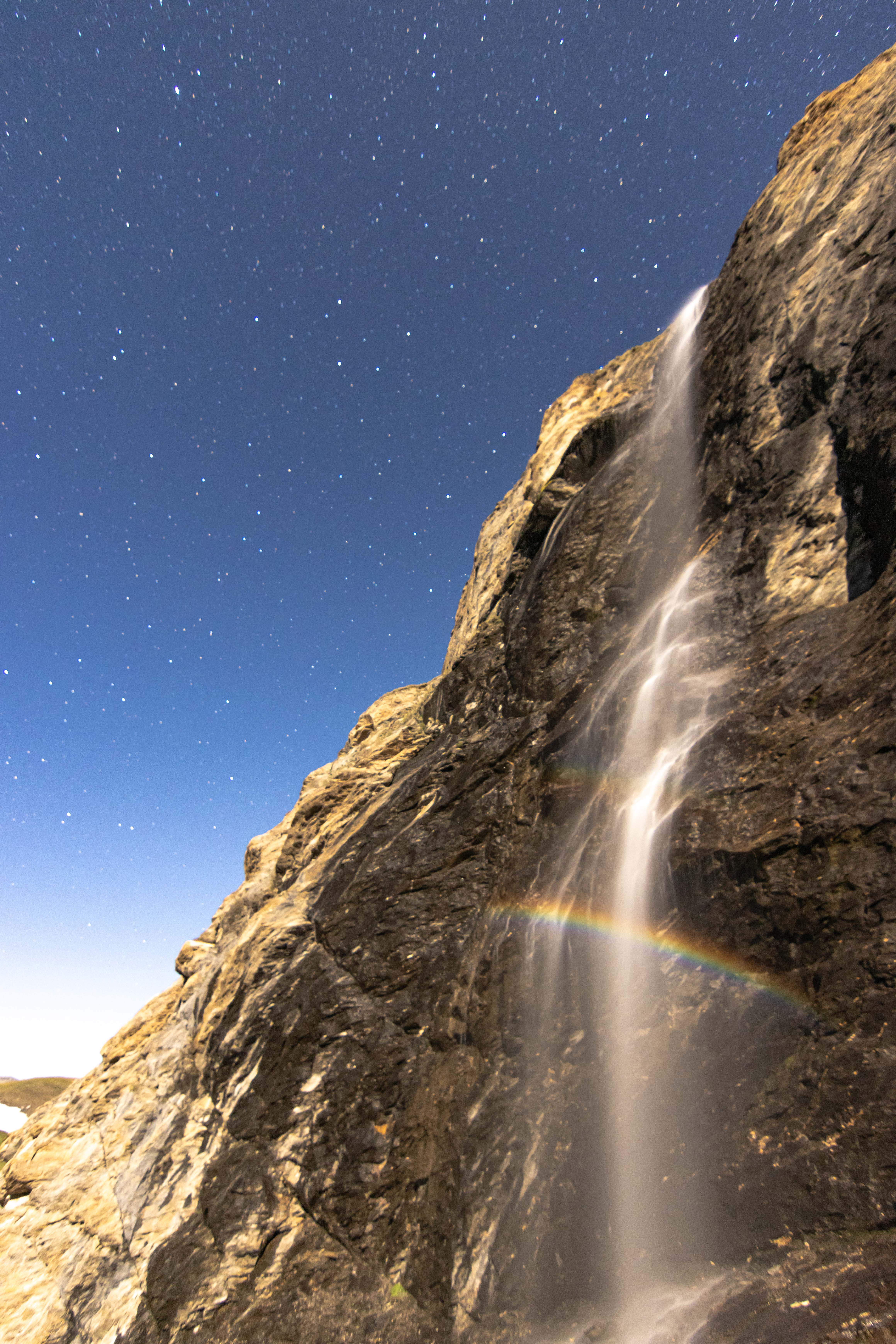 Moonbow - Cascade du Grand Pisaillas - Col de l'Iseran - France